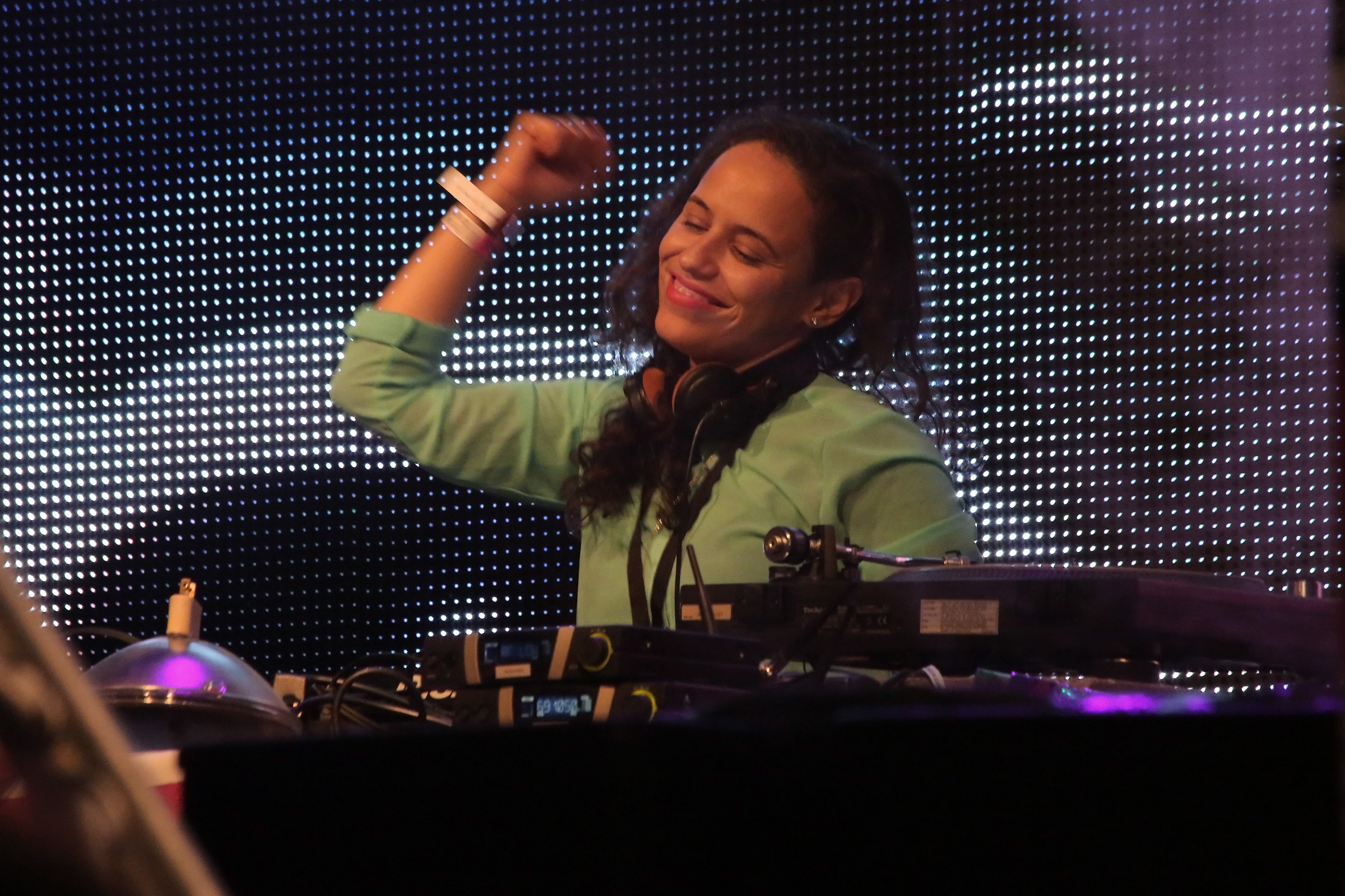 Joyce Muniz and Louie Austen - Donauinselfest 2013 in Vienna, Austria